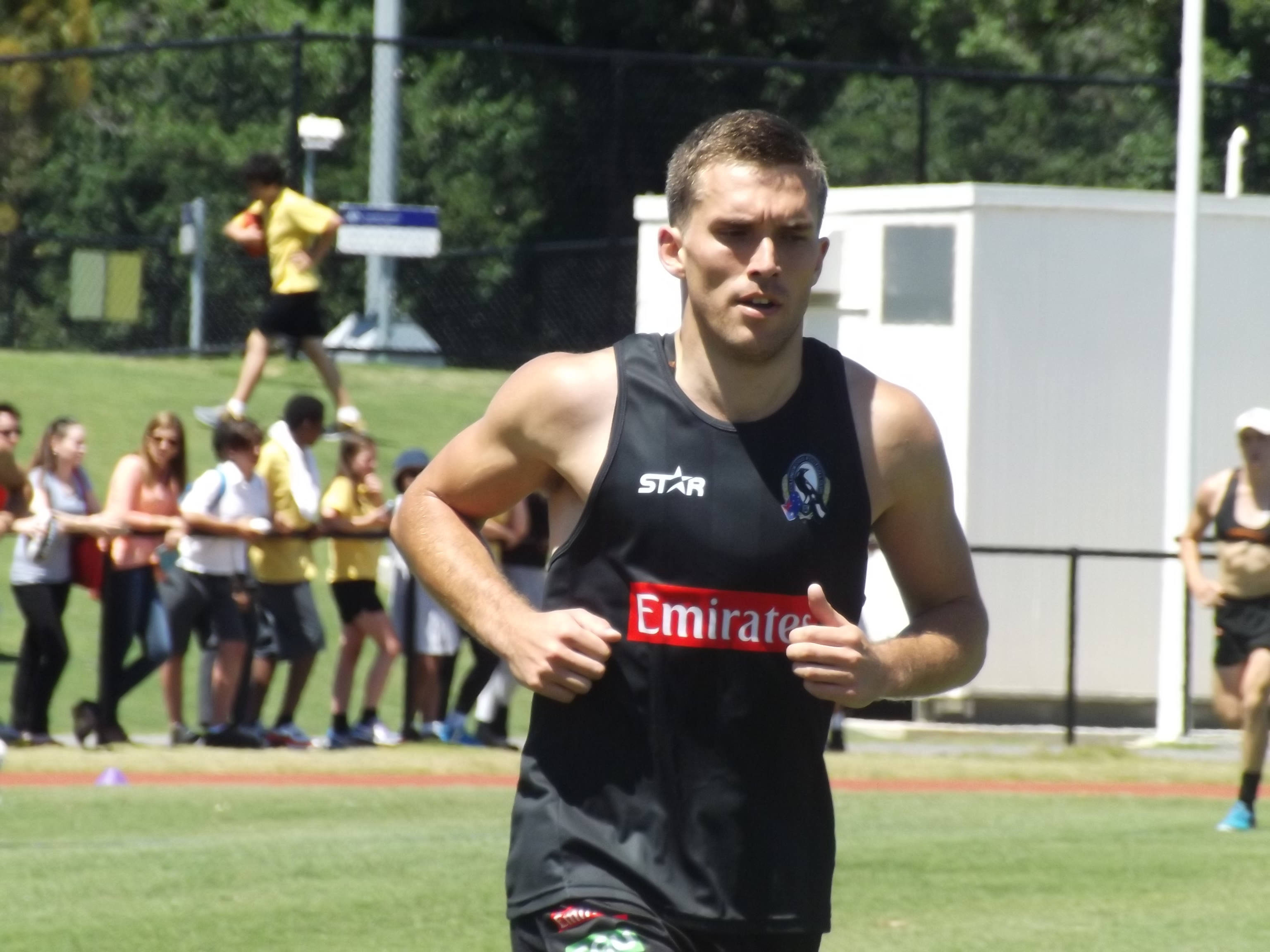 Clinton Young with Collingwood during an open training session at Olympic Park, Melbourne.